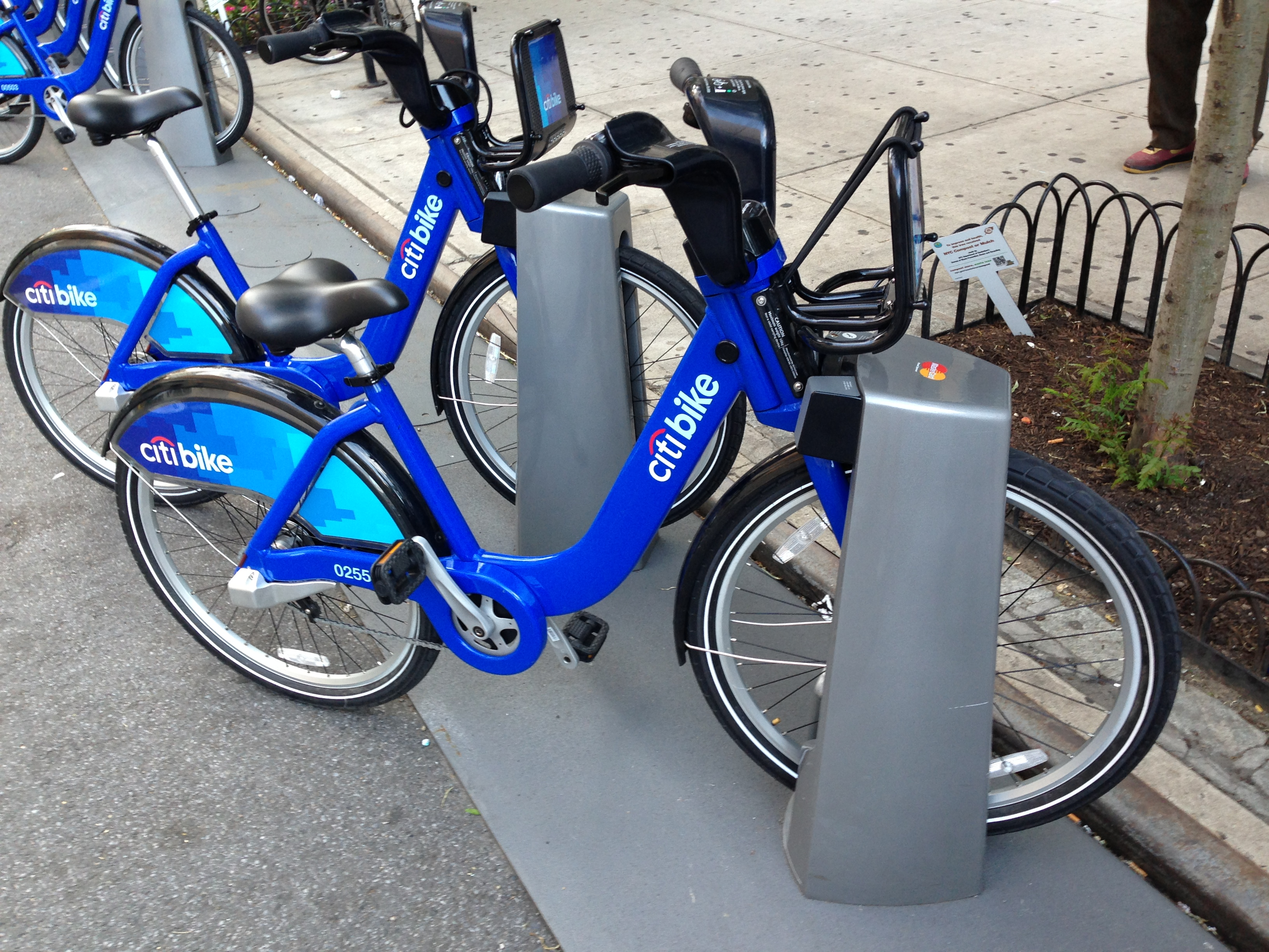 A bicycle using for the Citi Bike program in NYC.